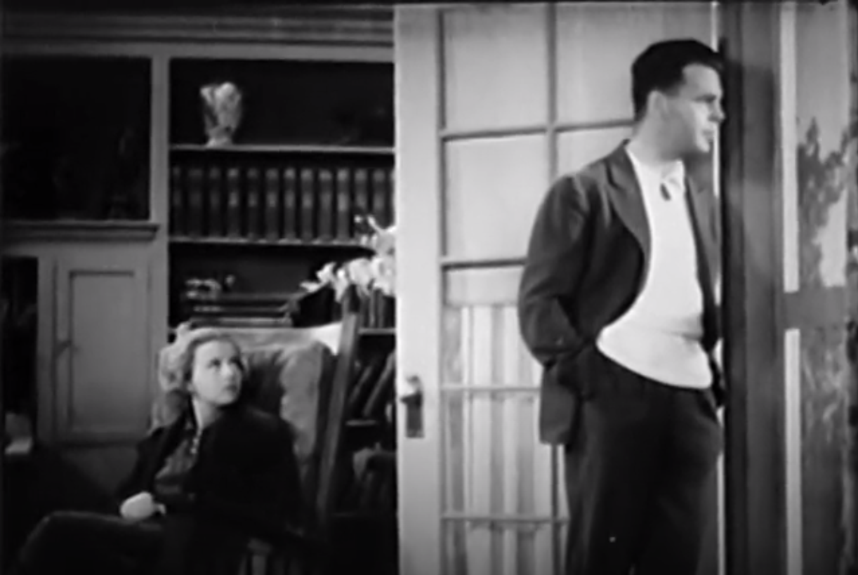 A still from "The Keeper of the Bees" (public domain) depicting Jamie, the protagonist, and his impromptu wife Molly